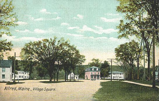 Village Square, Alfred, ME; from a 1906 postcard published by the Hugh C. Leighton Company of Portland, Maine.